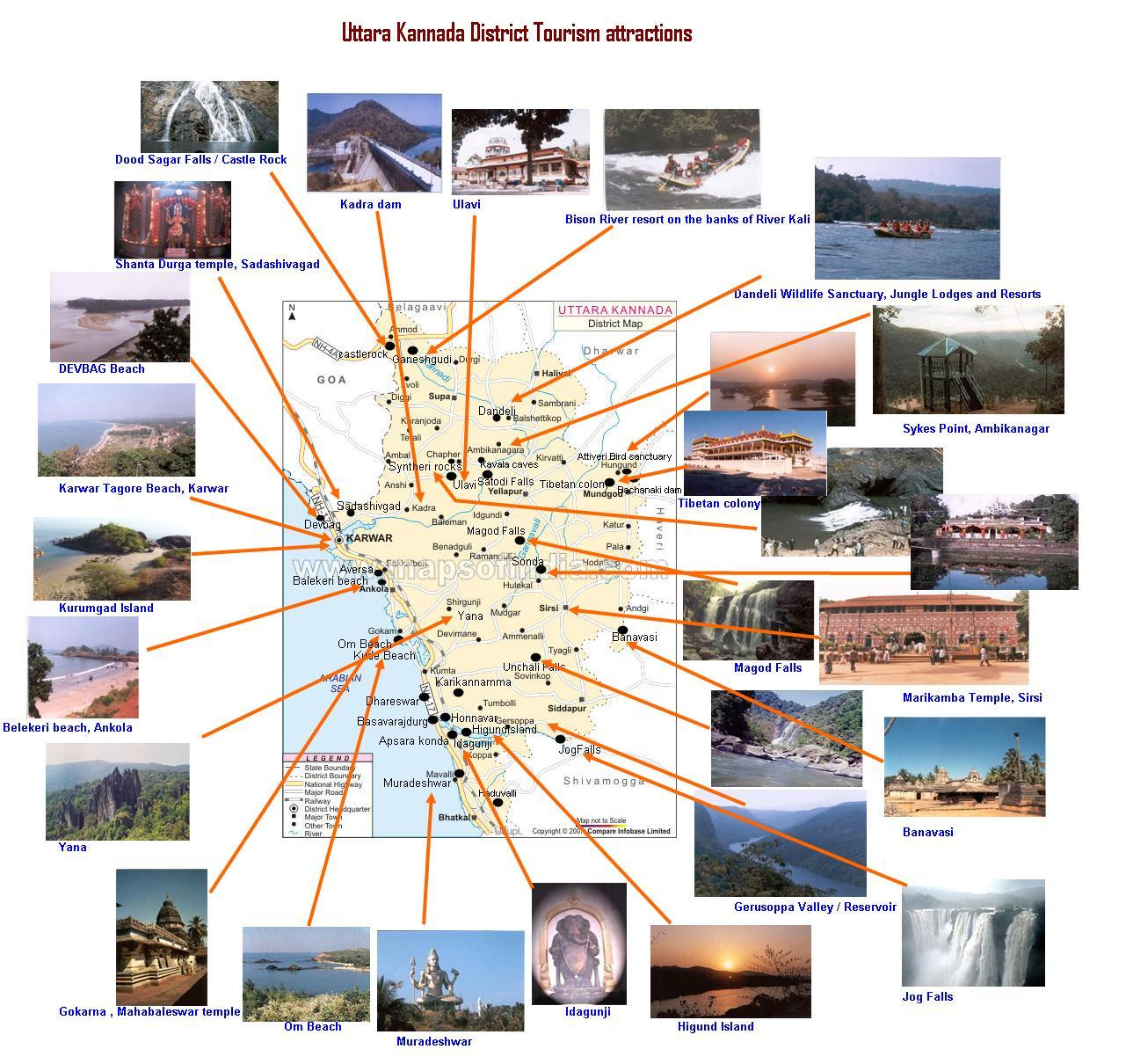 Uttara Kannada District Region Tourism map Source and Author : Manjunath Doddamani, Gajendragad / Hubli, Karnataka(Noth), India.